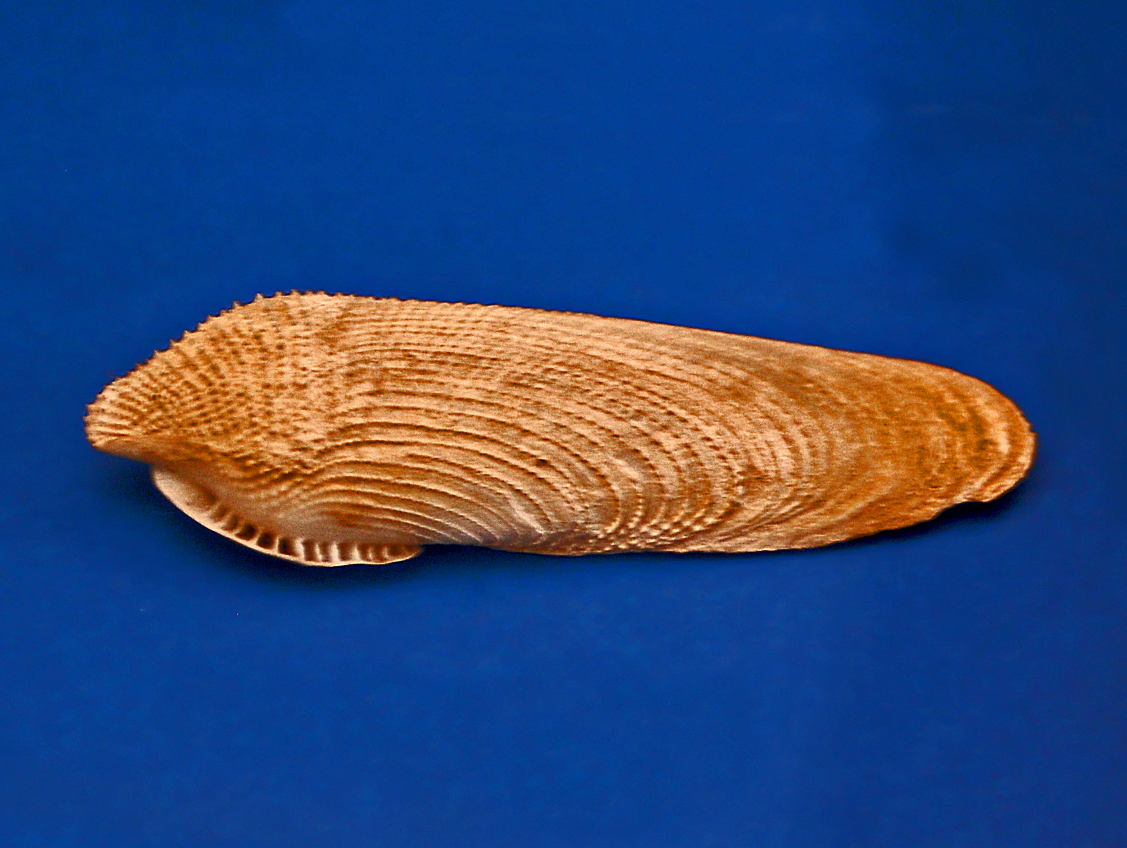 Shell of Pholas dactylus from Sicily on display at the Museo Civico di Storia Naturale di Milano